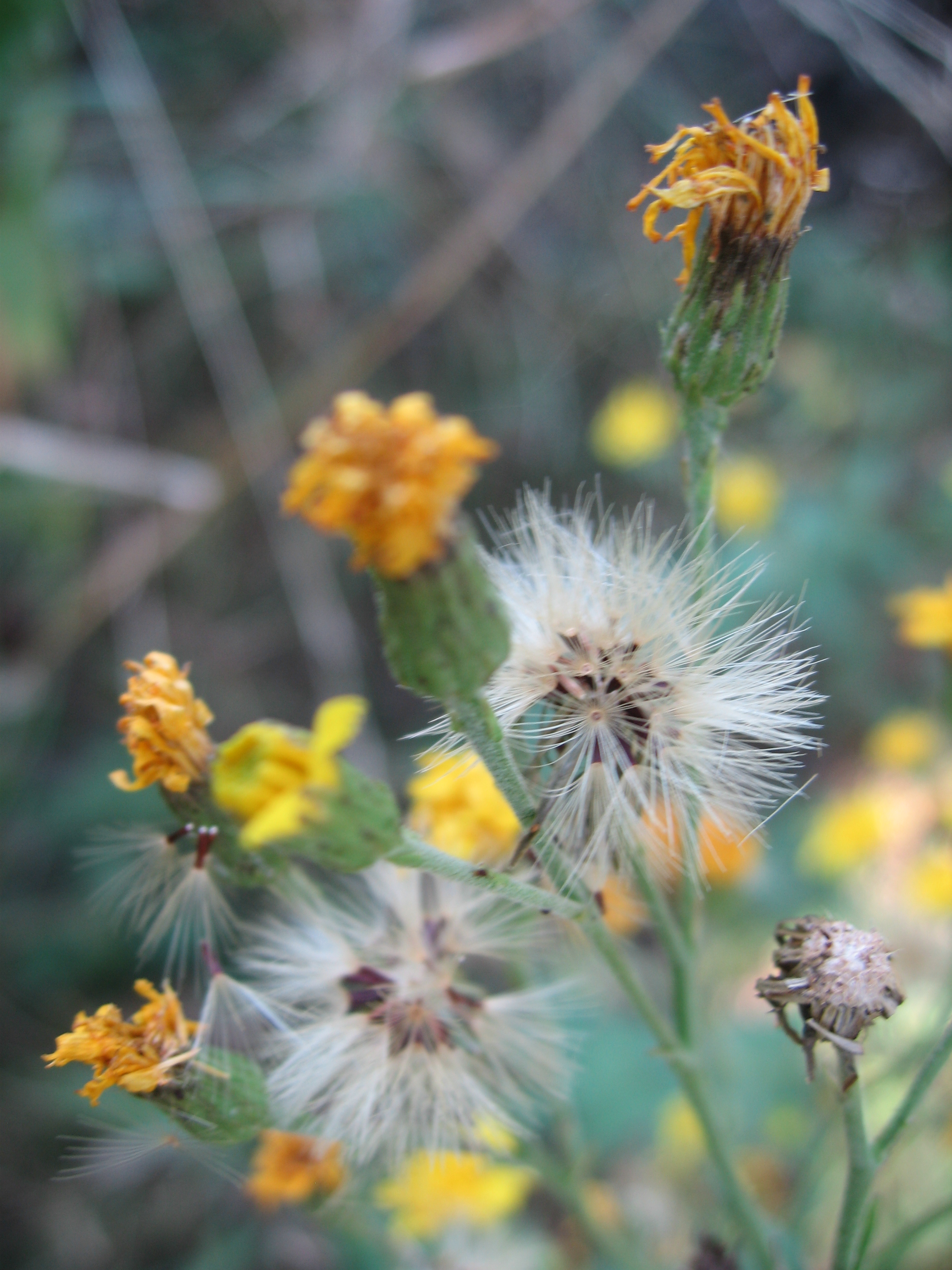 Hieracium sabaudum fruits